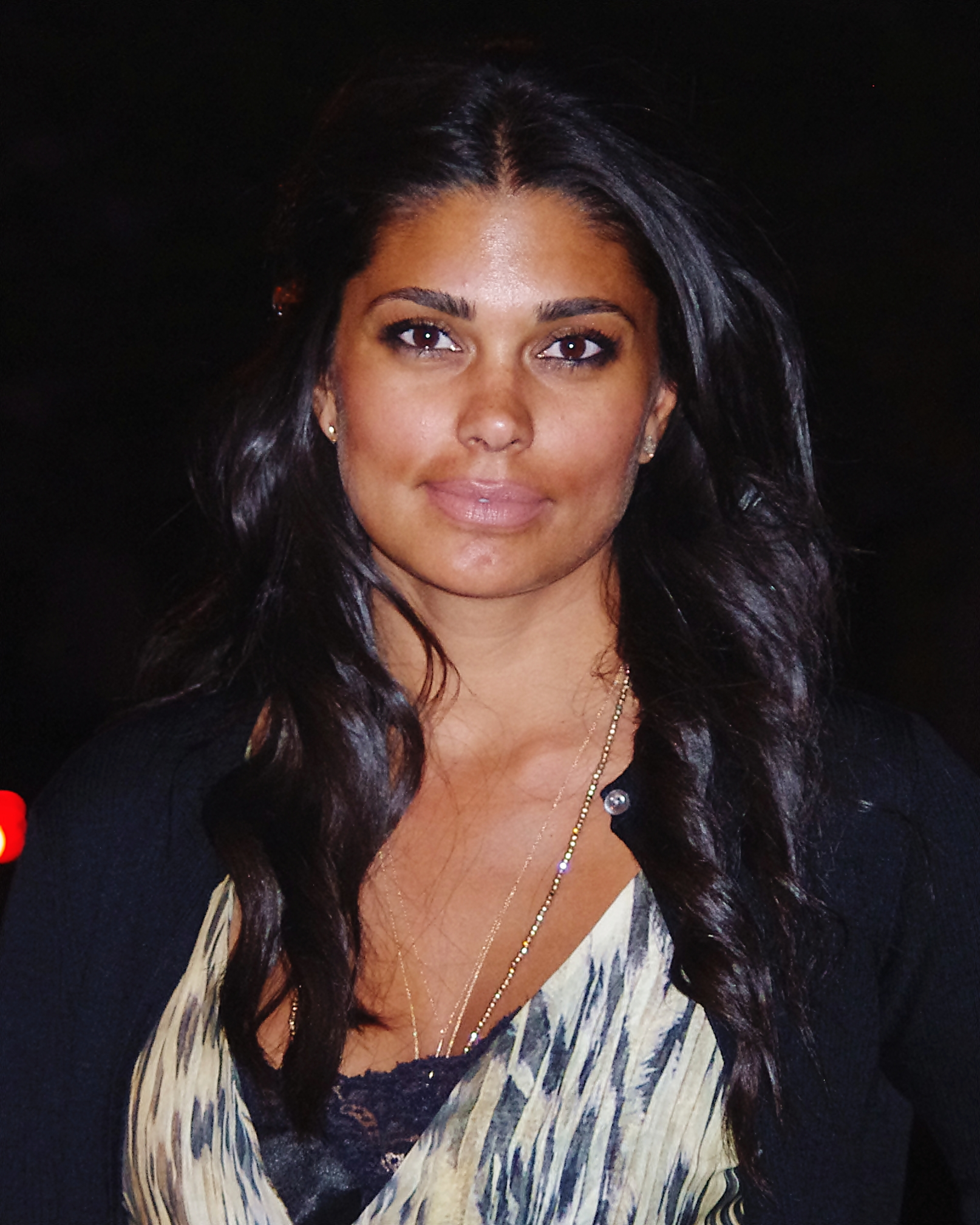 Rachel Roy at the Vanity Fair party for the 2012 Tribeca Film Festival.